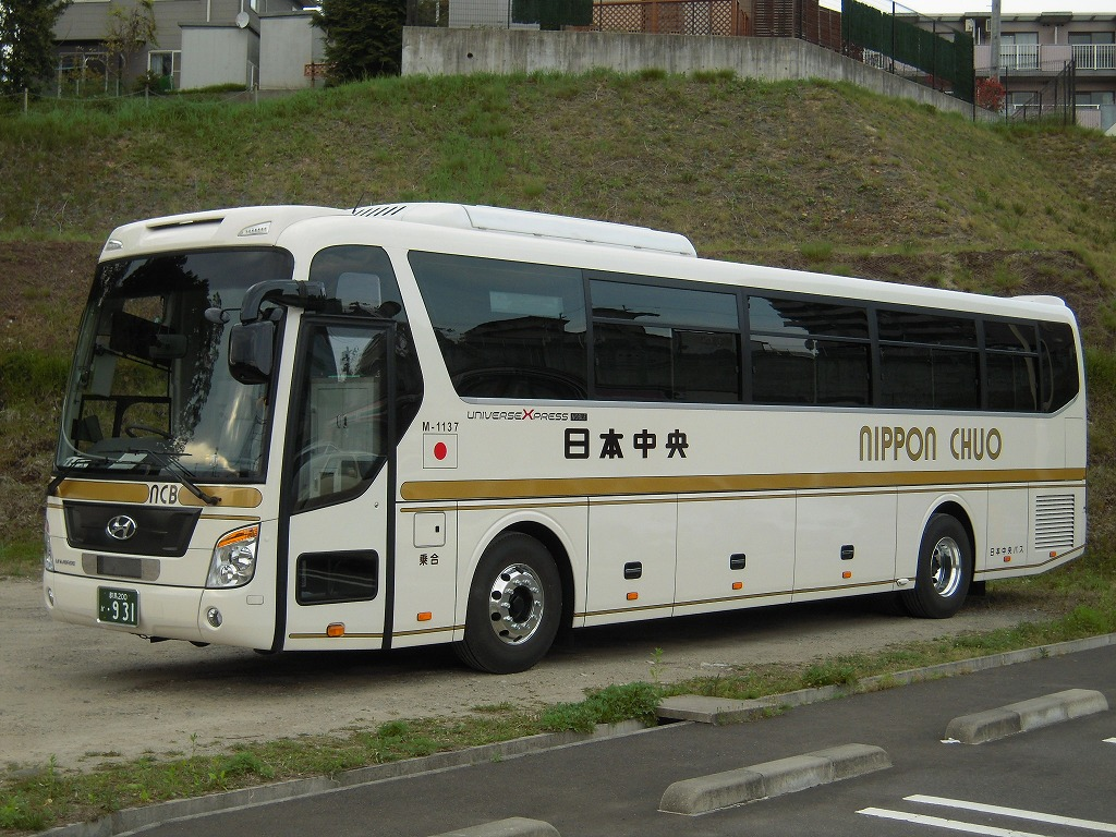 Nippon Chuo bus Hyundai Universe (LDG-RD00) for Highwaybus